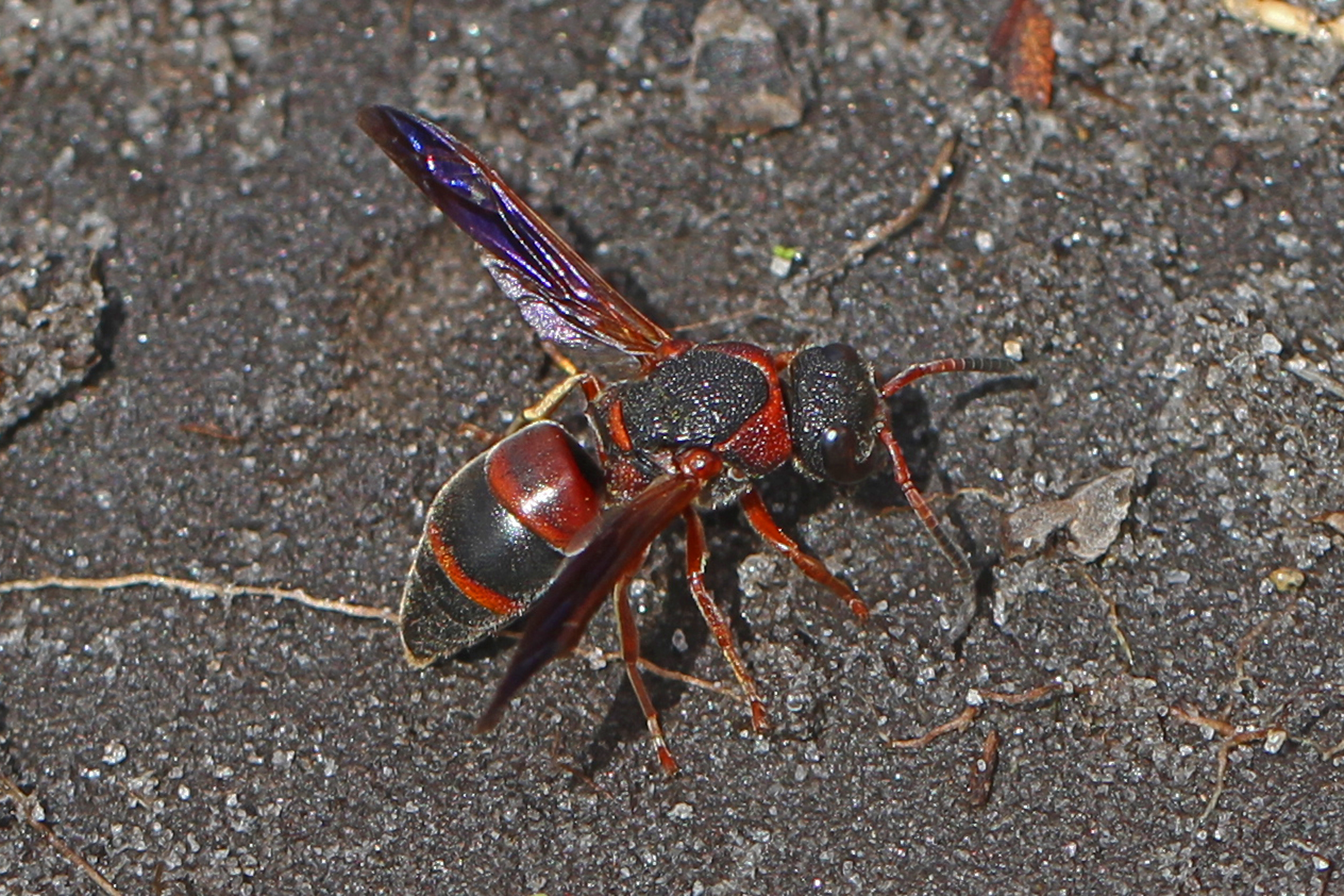 Red-marked Pachodynerus - Pachodynerus erynnis, Merritt Island National Wildlife Refuge, Titusville, Florida